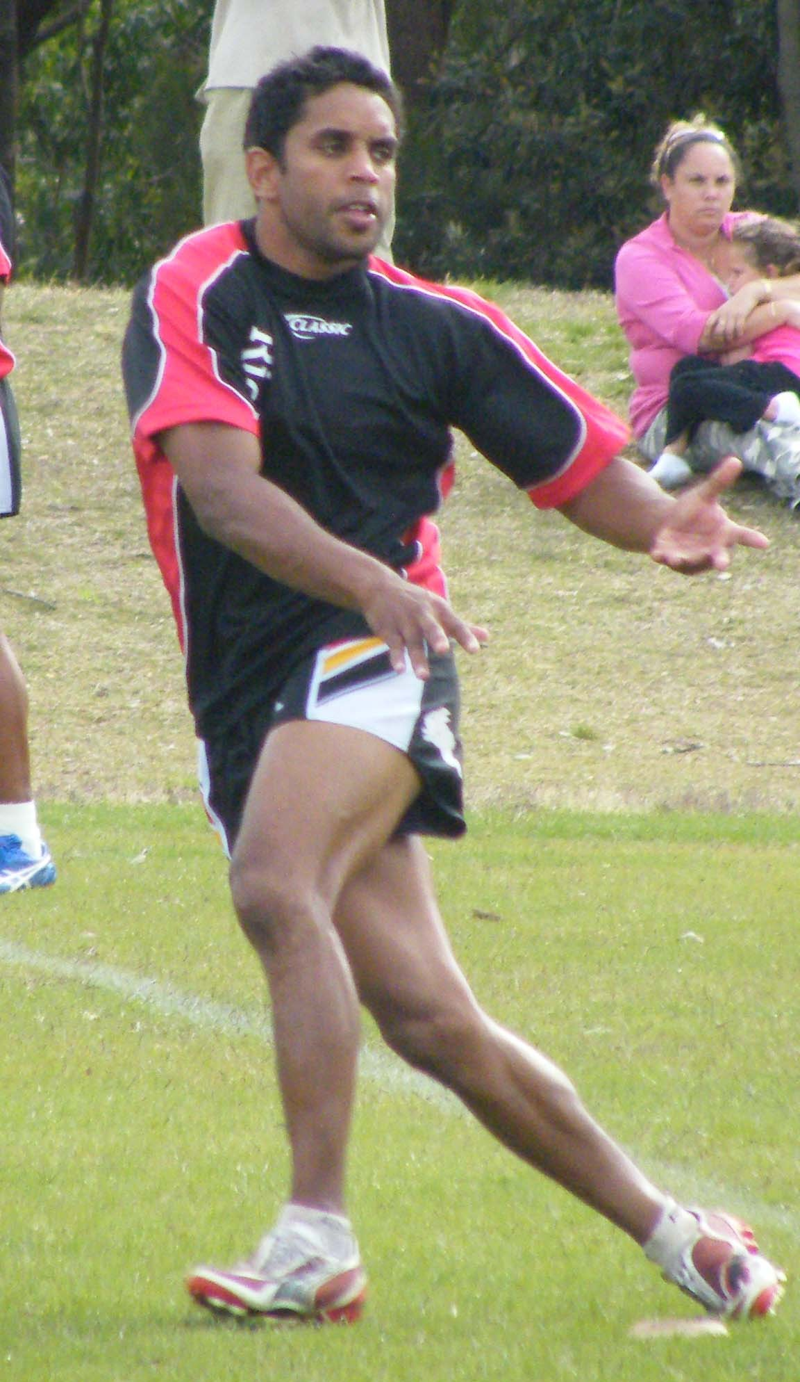 Training Session - Aboriginal Dreamtime Team - RLWC 2008.